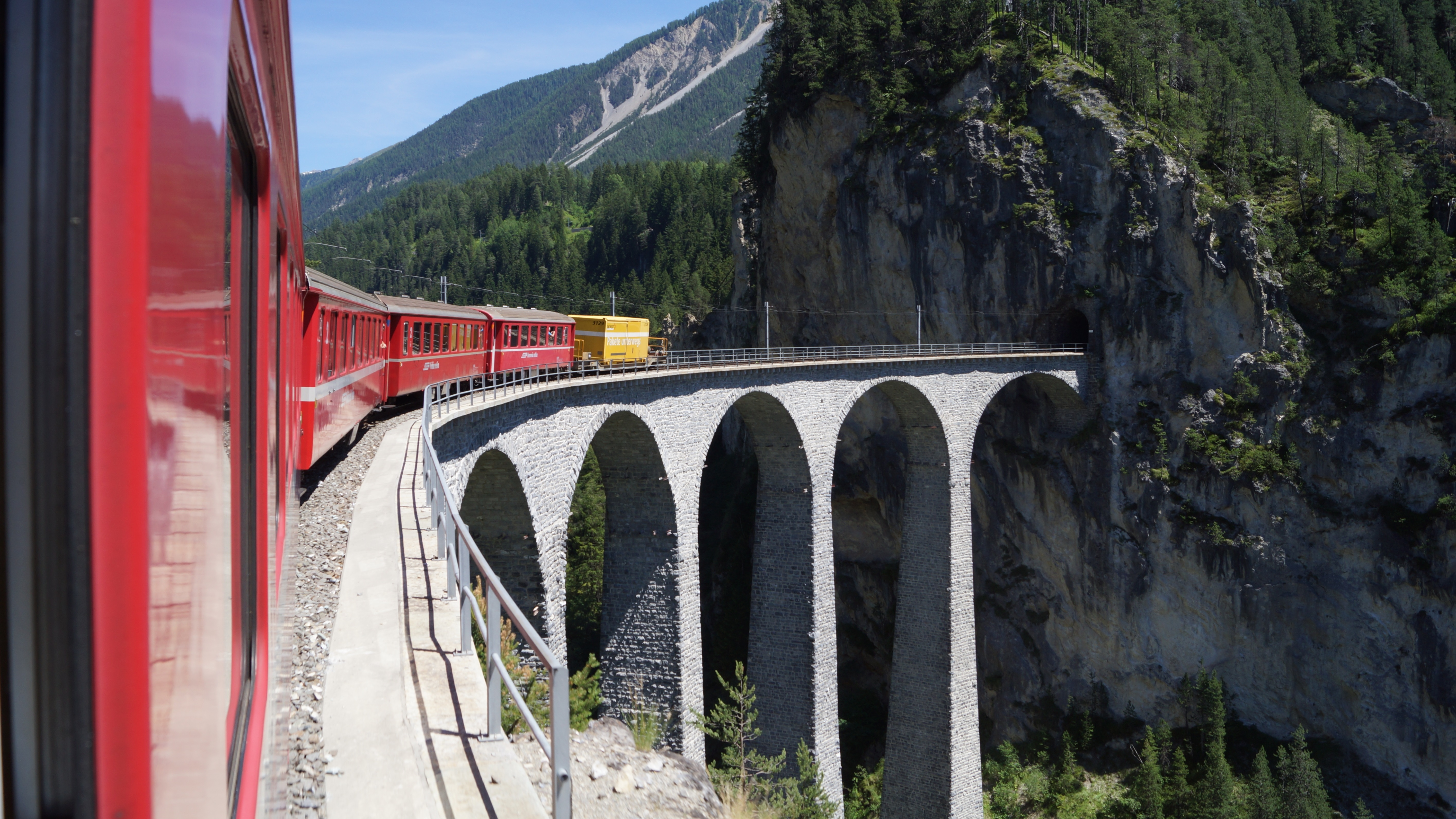 Landwasser Viaduct with Albula Railway in Grisons.